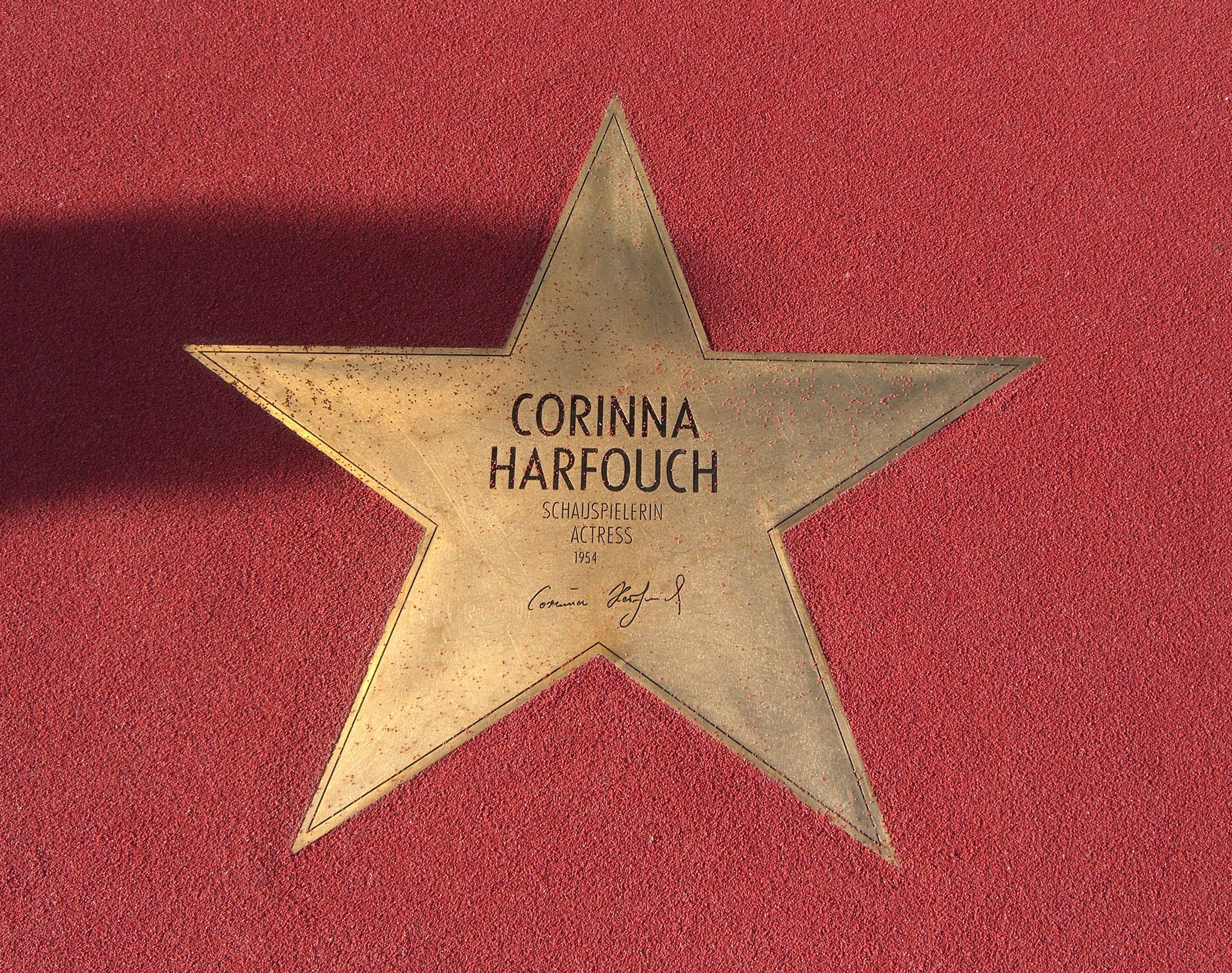 Star of Corinna Harfouch at "Boulevard der Stars" in Berlin.